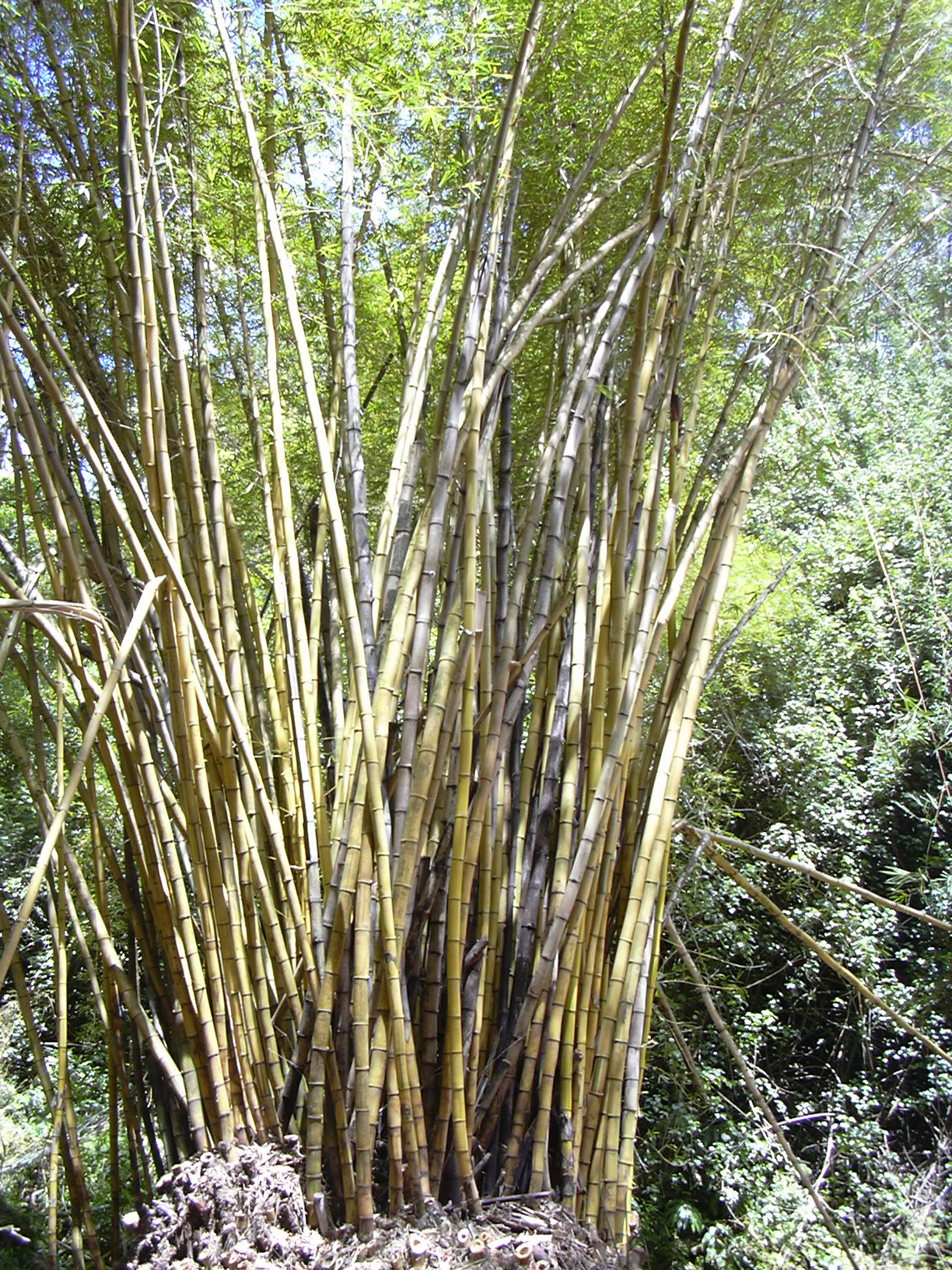 Bambusa vulgaris (cv vittata). Location: Maui, Keanae Arboretum